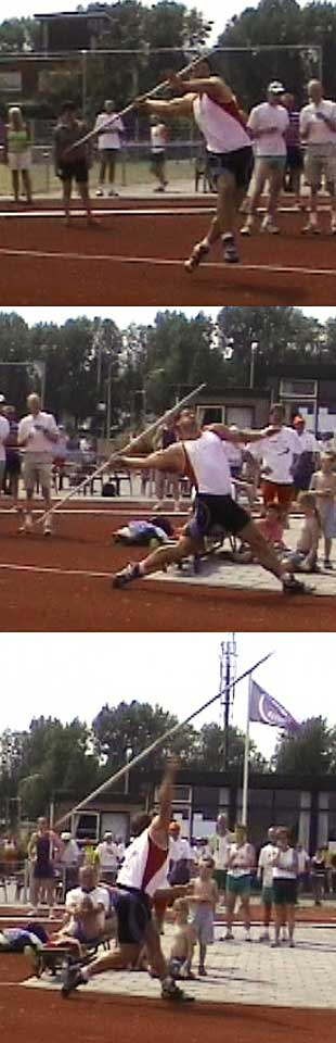 Javelin throw, Elliott Thijssen (Netherlands M35), 74.35m, june 18 2006, Reeuwijk. Own work, with admission of the thrower.